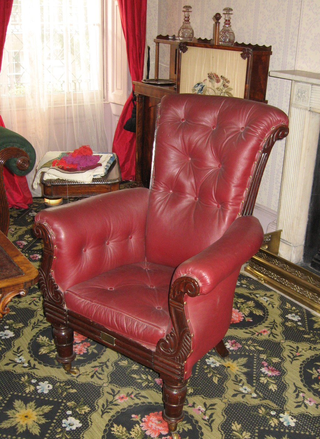 Dickens' chair at the Charles Dickens Museum